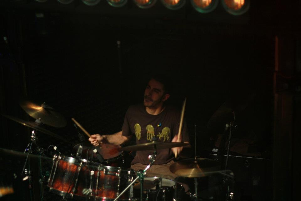 Hami Davul